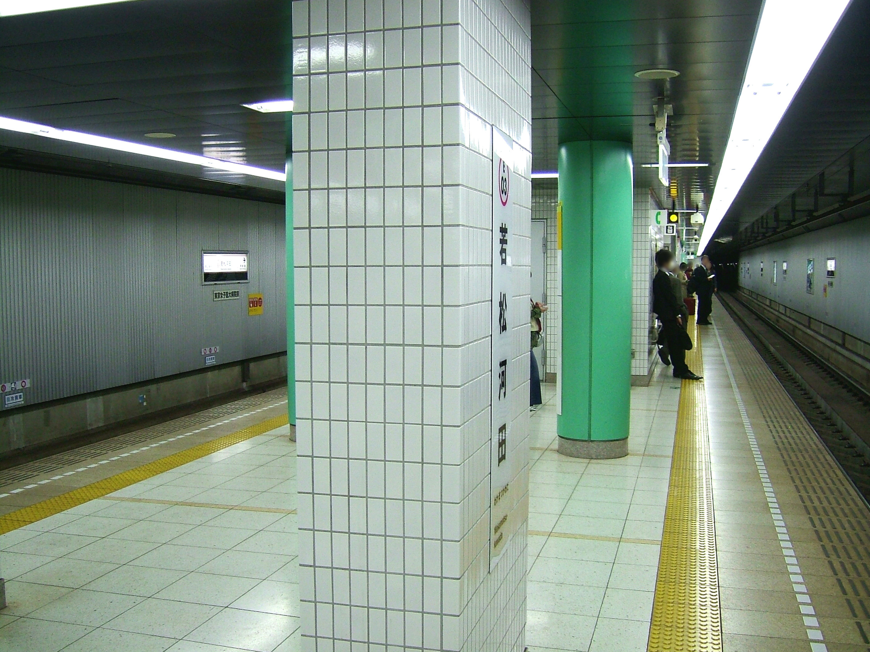 The platform at Wakamatsu-kawada Station on the Toei Ōedo Line in Shinjuku city, Tokyo, Japan